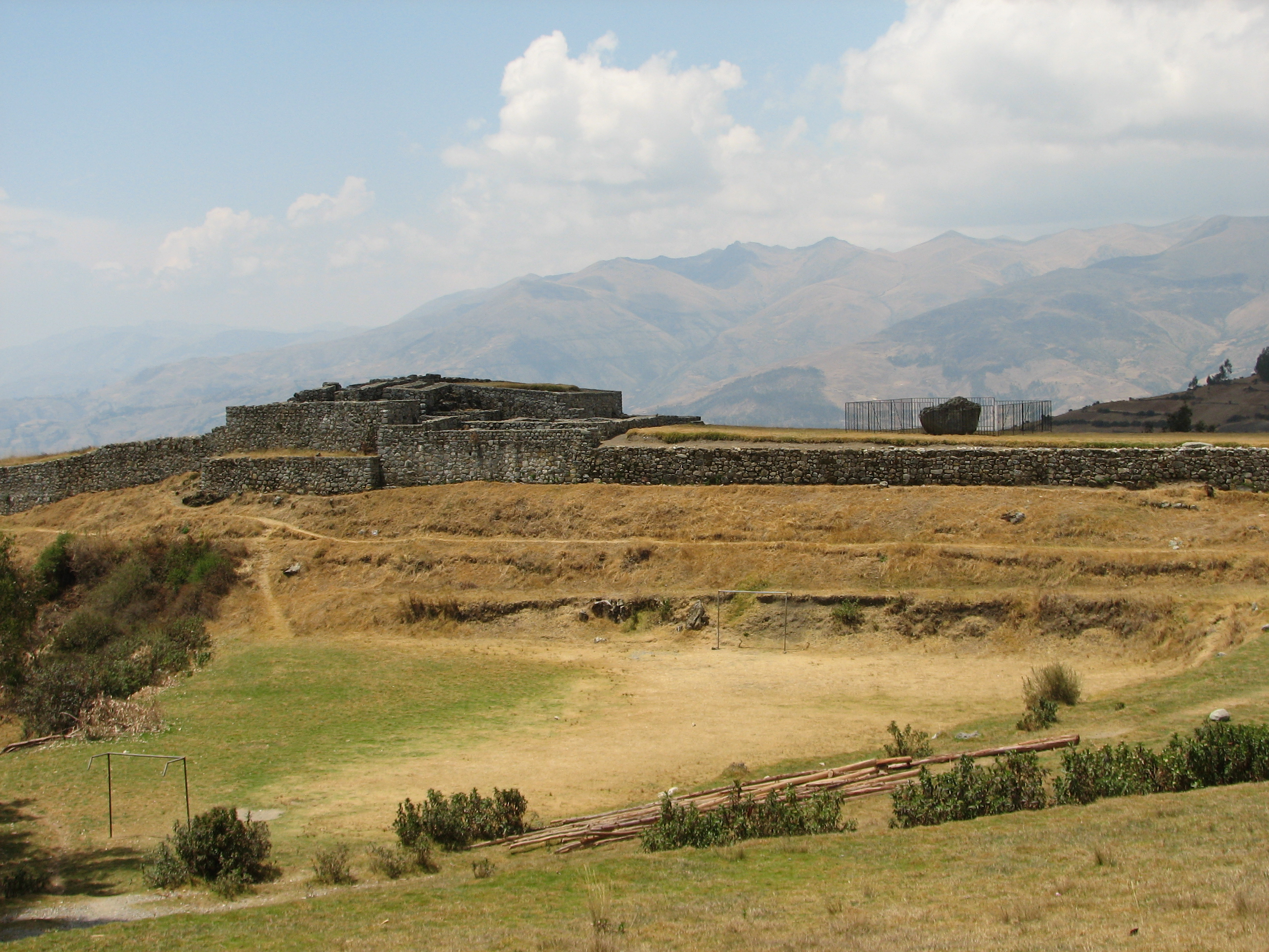 Sayhuite Archaeological site (overview)